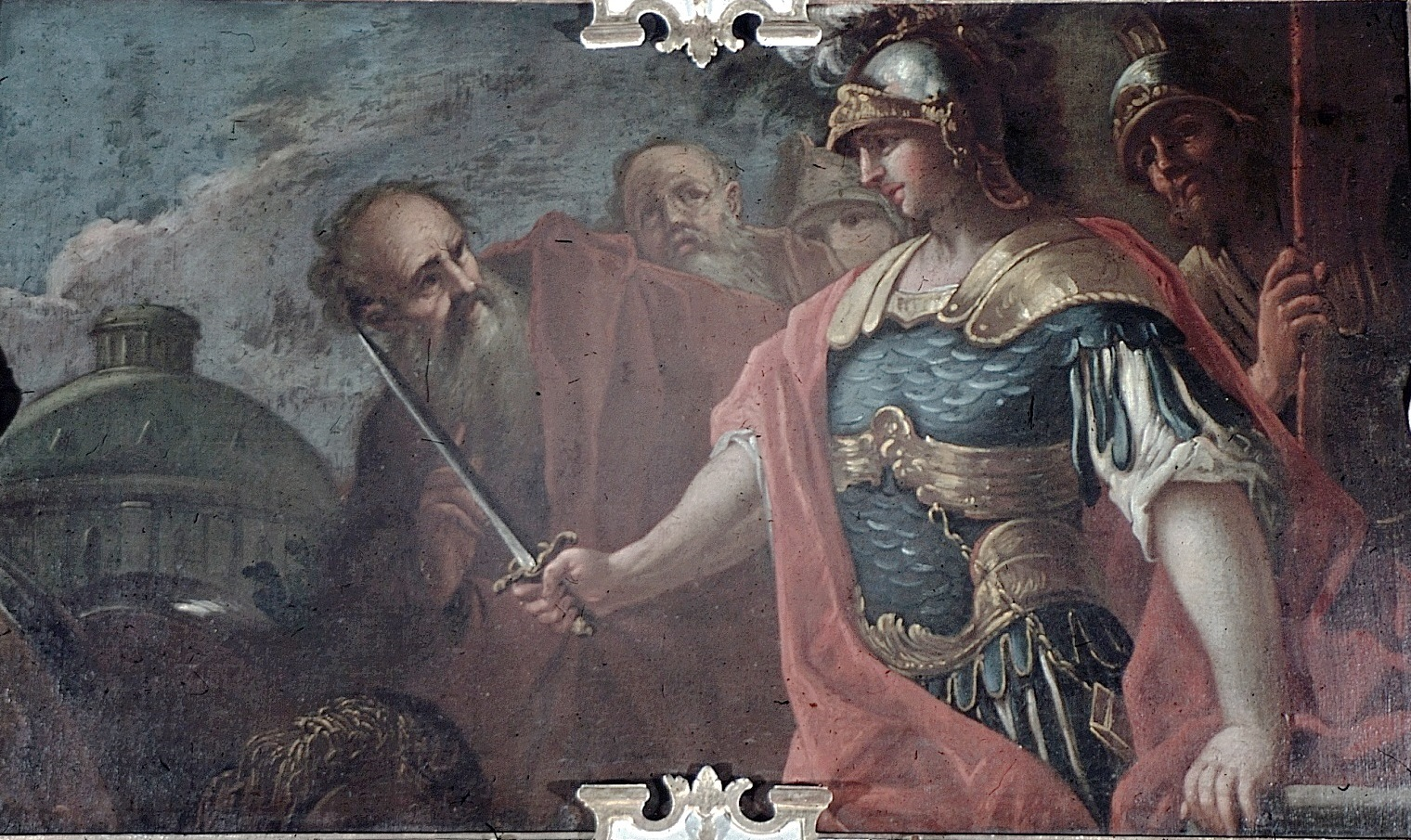 Schwäbisch Hall, Rathaus, Supraporte im Trausaal (Heldensaal) "Alexander der Große zerhaut den Gordischen Knoten".jpg